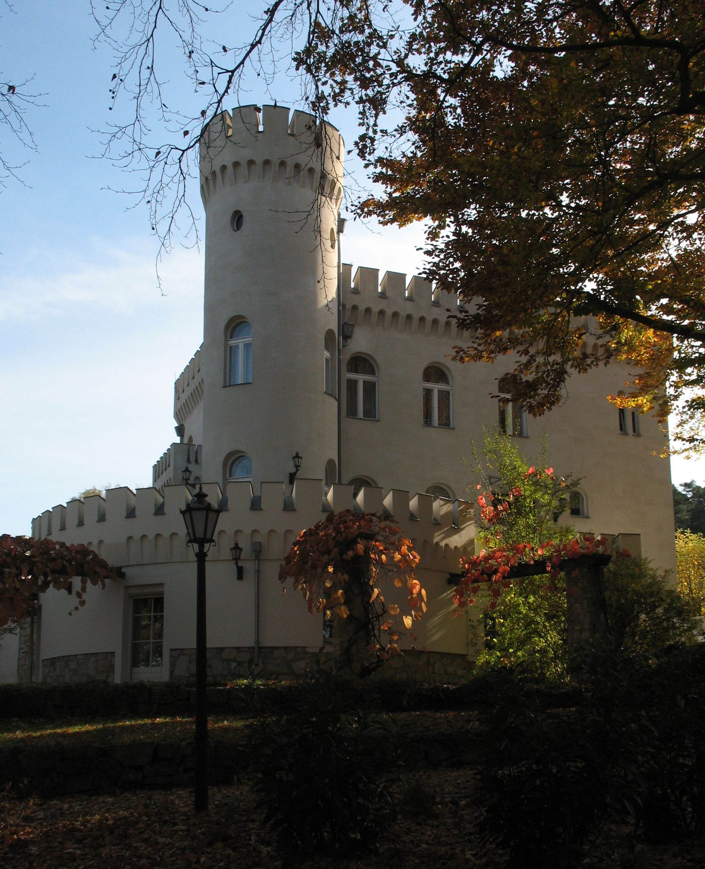 Building in Schwielowsee-Ferch in Brandenburg, Germany